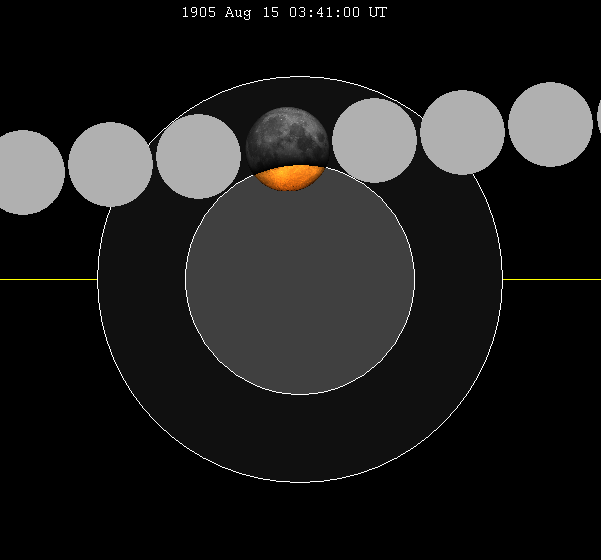 =lunar eclipse chart of moon's path through the earth's shadow. thumb